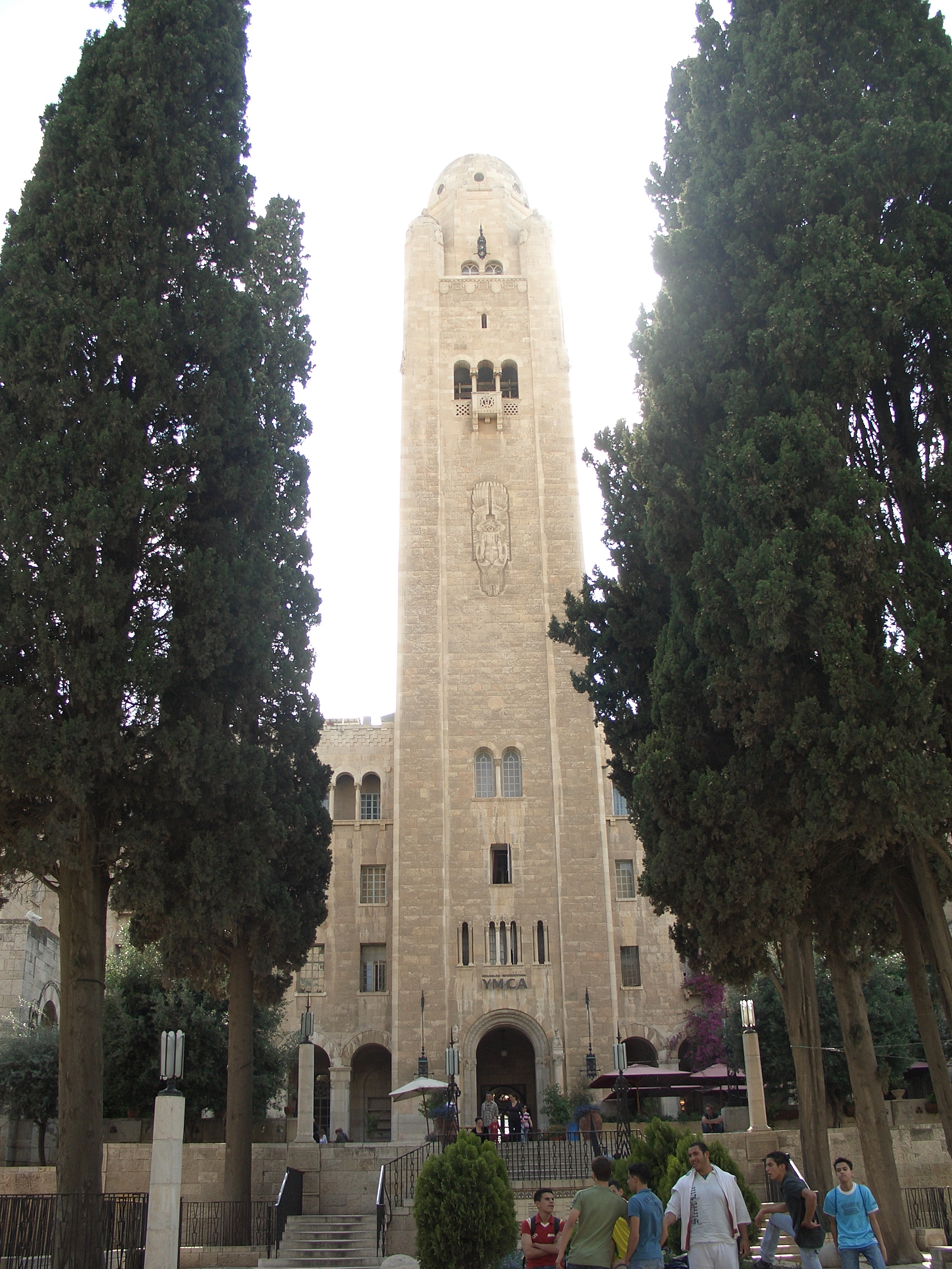 panoramic tower of the YMCA in Jerusalem.